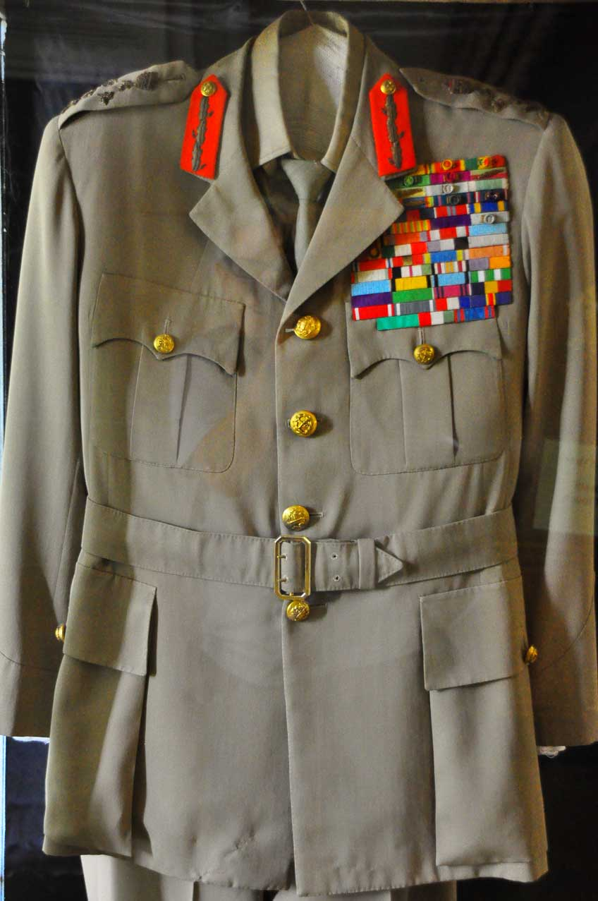 His title was 'Ras' and his name wasTafari